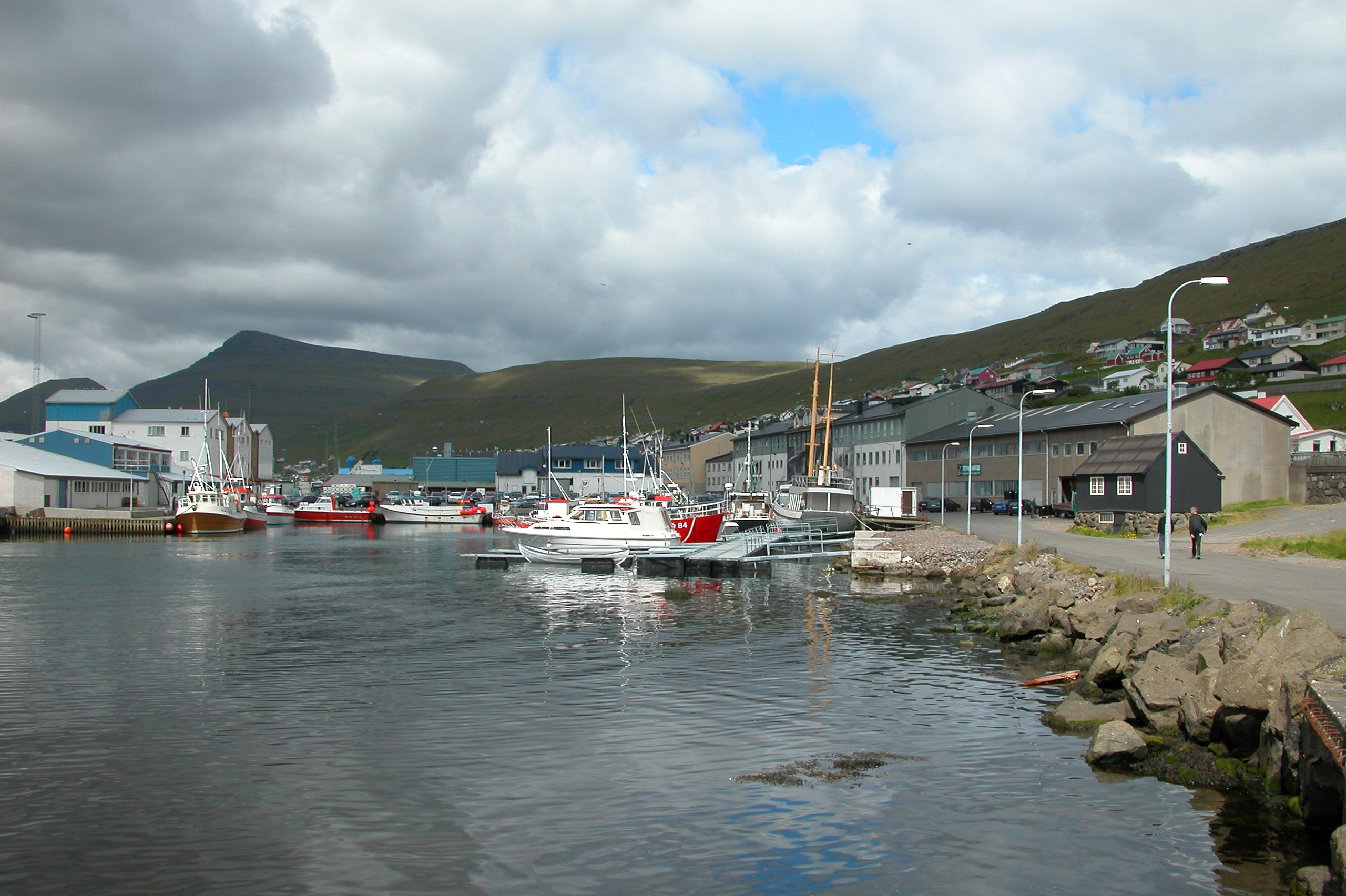 Harbour of Runavík at the Skálafjørður in Eysturoy, Faroe Islands